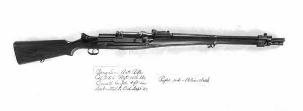 The Model 1922 Bang rifle was a modification of the earlier Models of 1909 and U.S. .30" caliber Model 1911 Bang rifles. Produced in .256" caliber (6.5mm Krag), the rifle was handled by the inventor Soren Bang at the U.S. Ordnance Department trials in 1927 and 1919.